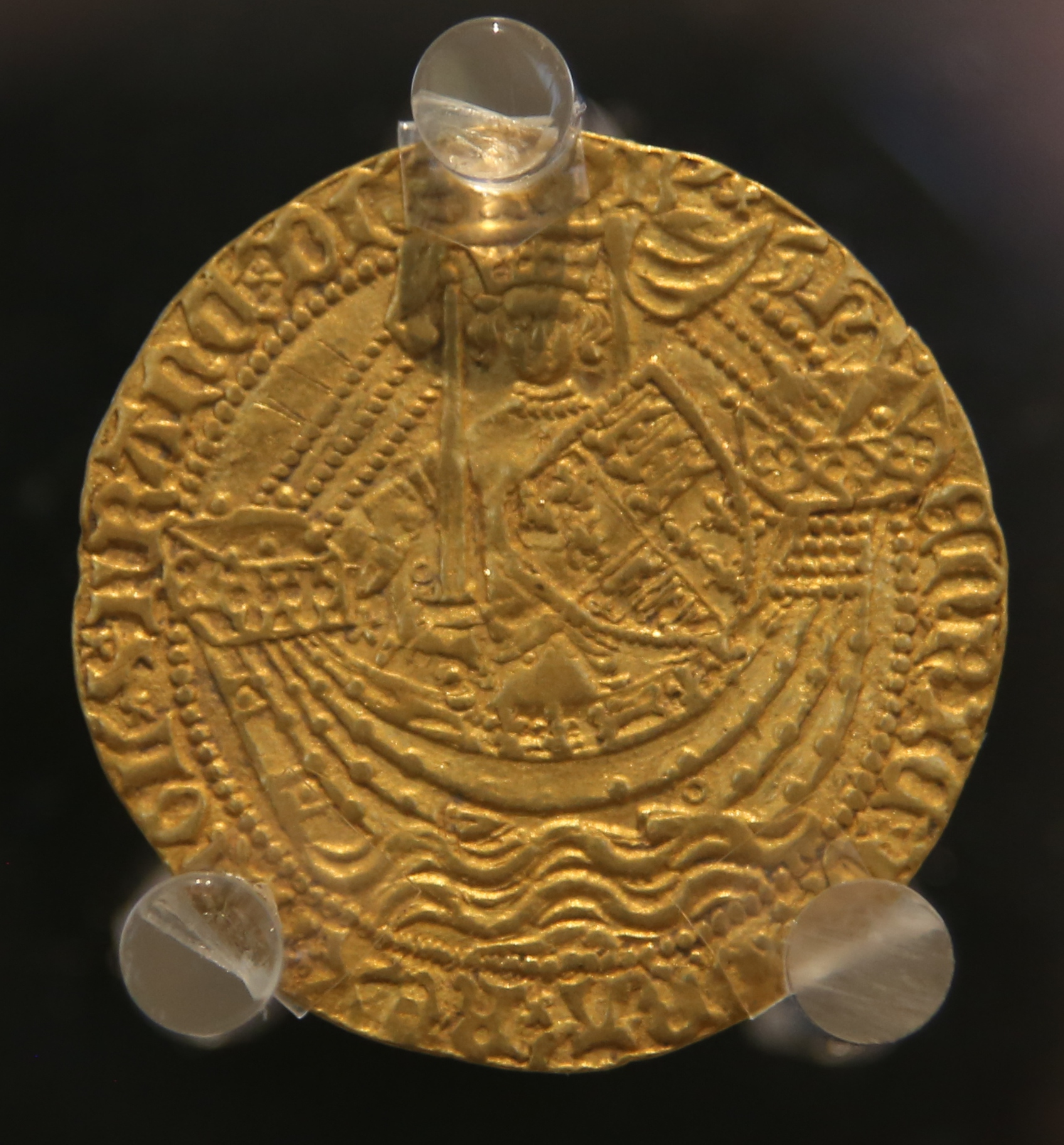 Photo of a Noble coin of Henry V